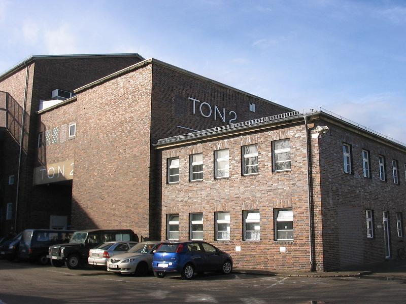 Listed studio from Universum Film AG (today Berliner Union-Film) at the Oberlandstraße (street) in Berlin-Tempelhof.